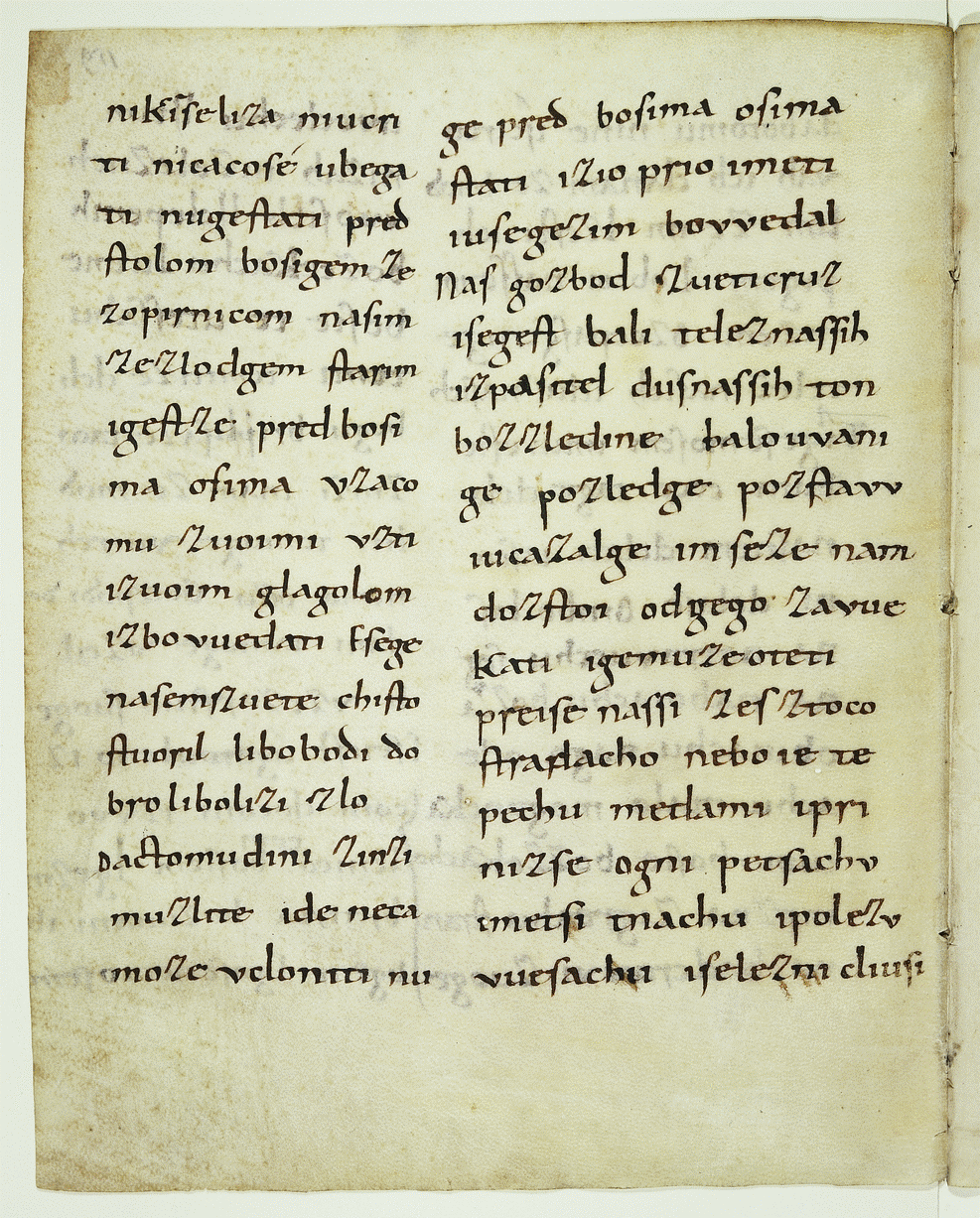 Facsimile of Freising Manuscripts, page 5.